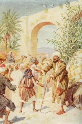 HOLE, WILLIAM: The Life of Jesus of Nazareth. Eighty Pictures.